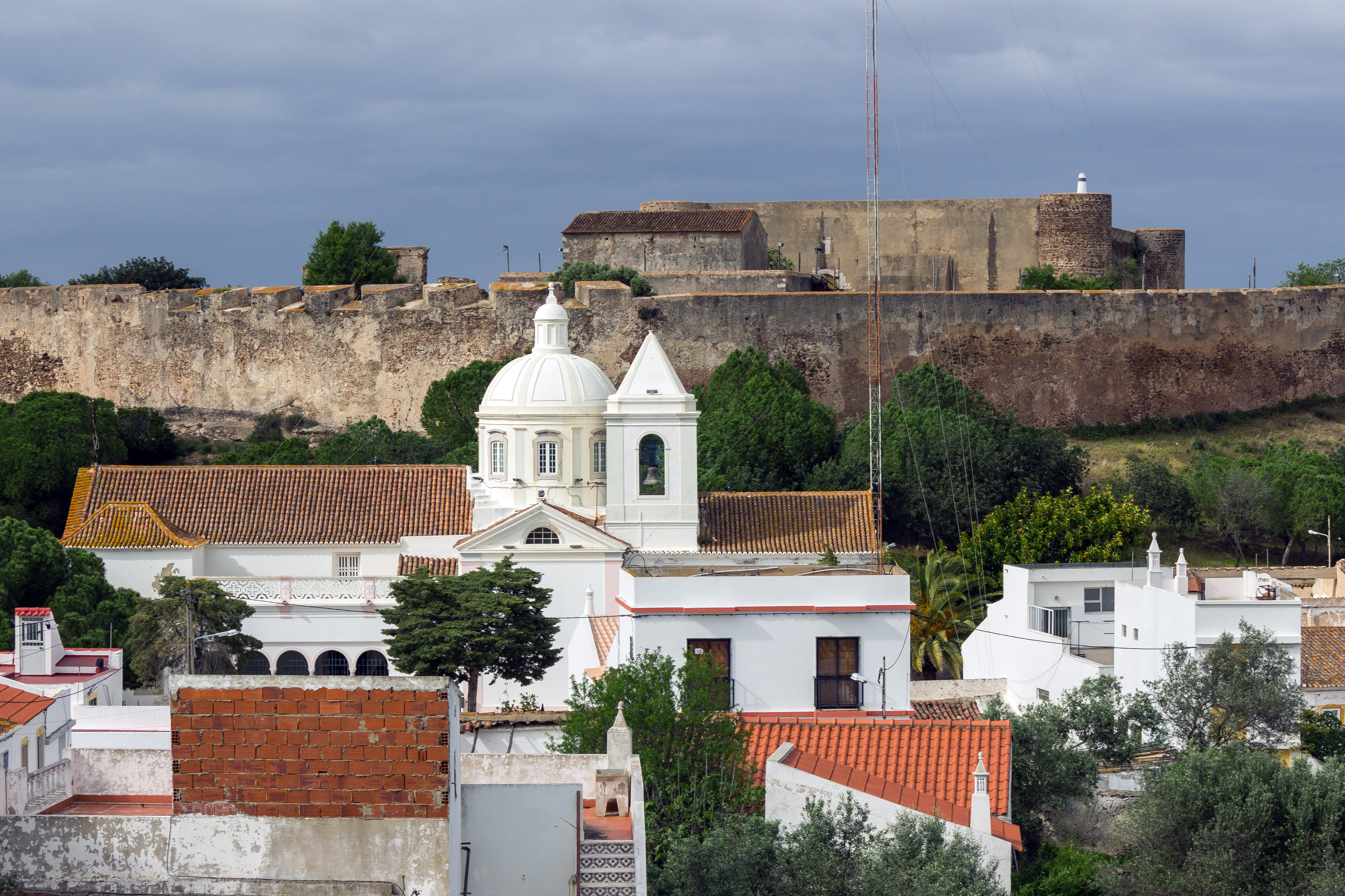 The church and the castle of Castro Marim